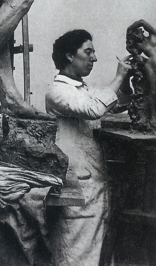 Jessie Lipscomb in 1887 at work in studio shared with Camille Claudel, Notre-Dame-des-Champs, Paris, France